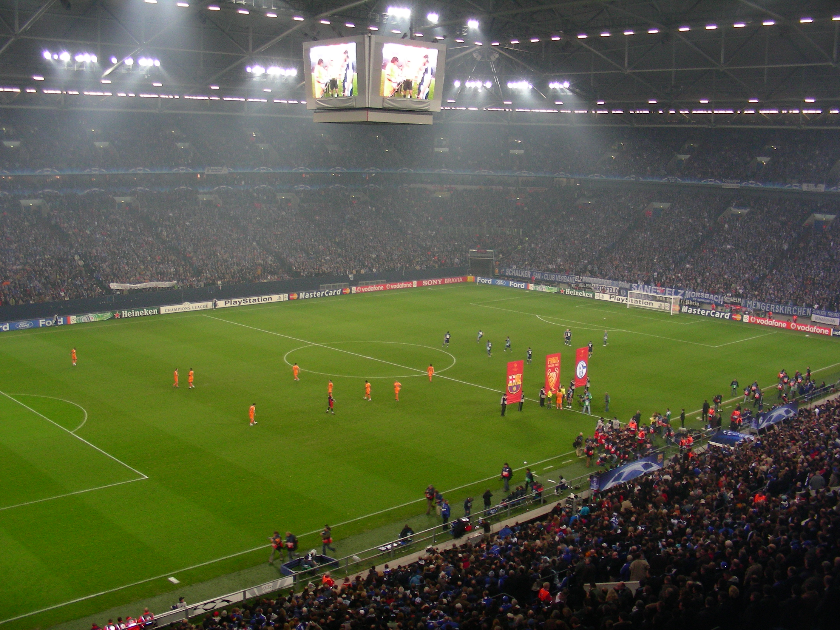 2007-08 Champions League match between Schalke 04 and FC Barcelona in Gelsenkirchen. Result was 0-1.